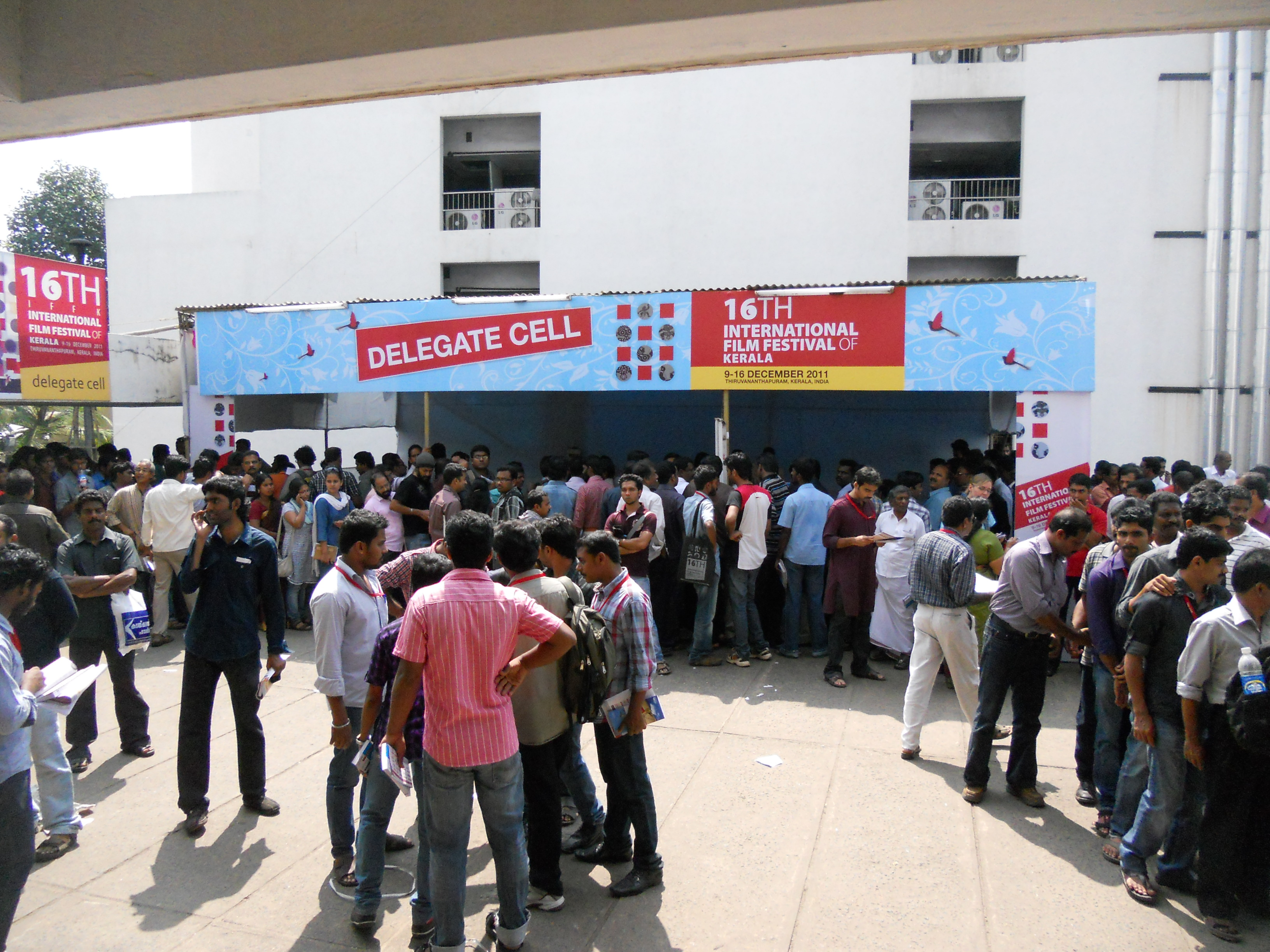 Iffk2011,Delegate pass distribution